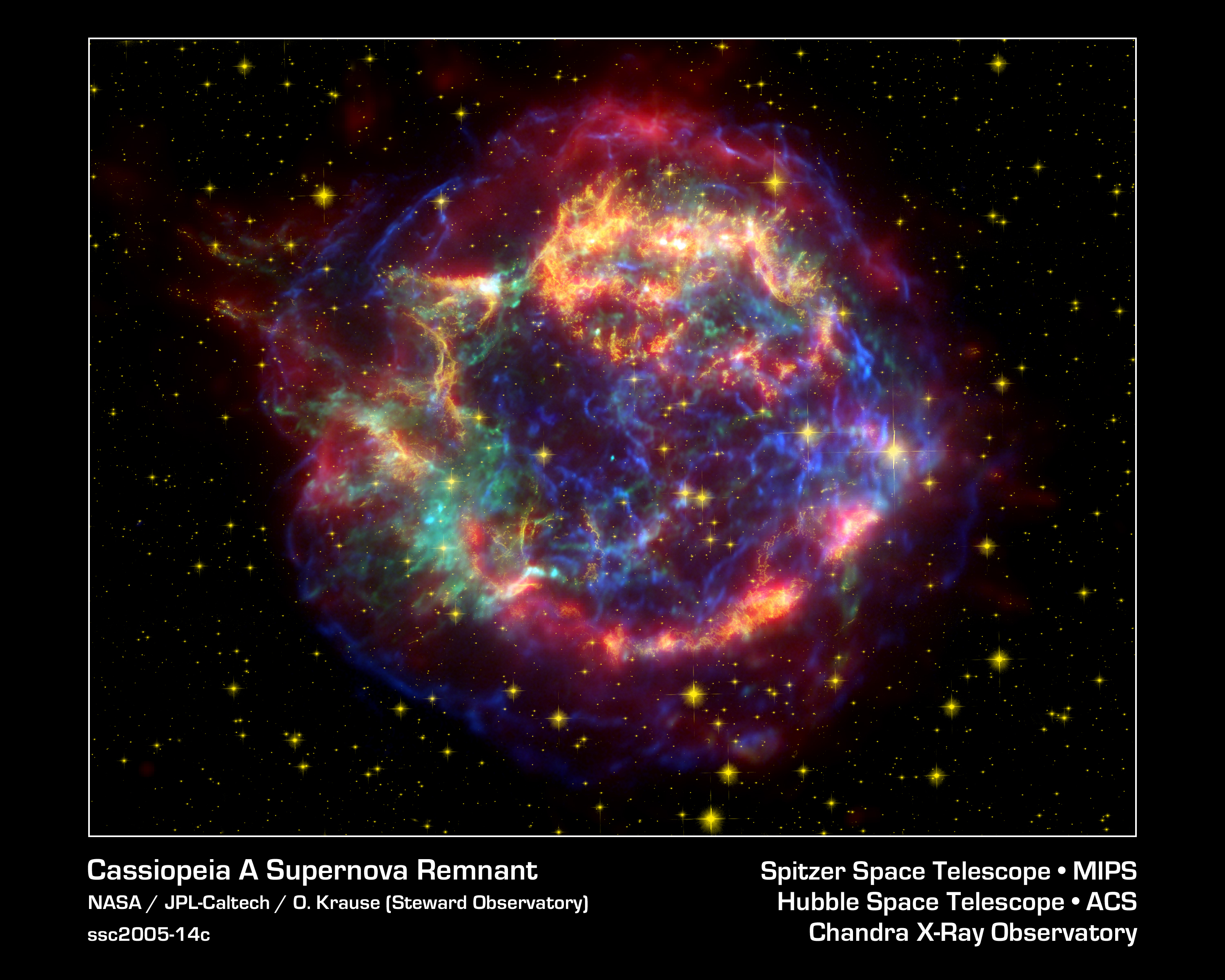 This stunning false-color picture shows off the many sides of the supernova remnant Cassiopeia A. It is made up of images taken by three of NASA's Great Observatories, using three different wavebands of light. Infrared data from the Spitzer Space Telescope are colored red; visible data from the Hubble Space Telescope are yellow; and X-ray data from the Chandra X-ray Observatory are green and blue. Located 10,000 light-years away in the northern constellation Cassiopeia, Cassiopeia A is the remnant of a once massive star that died in a violent supernova explosion seen on Earth 325 years ago. It consists of a dead star, called a neutron star, and a surrounding shell of material that was blasted off as the star died. This remnant marks the most recent supernova in our Milky Way galaxy, and is one of the most studied objects in the sky. Each Great Observatory highlights different characteristics of this celestial orb. While Spitzer reveals warm dust in the outer shell about a few hundred degrees Kelvin (80 degrees Fahrenheit) in temperature, Hubble sees the delicate filamentary structures of hot gases about 10,000 degrees Kelvin (18,000 degrees Fahrenheit). Chandra probes unimaginably hot gases, up to about 10 million degrees Kelvin (18 million degrees Fahrenheit). These extremely hot gases were created when ejected material from Cassiopeia A smashed into surrounding gas and dust. Chandra can also see Cassiopeia A's neutron star (turquoise dot at center of shell). Blue Chandra data were acquired using broadband X-rays (low to high energies); green Chandra data correspond to intermediate energy X-rays; yellow Hubble data were taken using a 900 nanometer-wavelength filter, and red Spitzer data are from the telescope's 24-micron detector. Cassiopeia A: Death Becomes Her